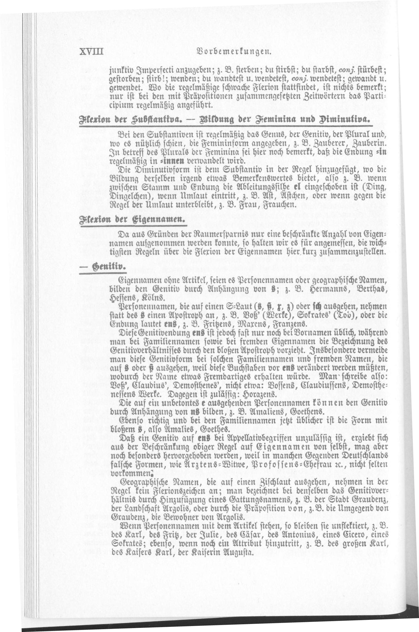 This is a scan of the historical document: Title: Vollständiges Orthographisches Wörterbuch der deutschen Sprache